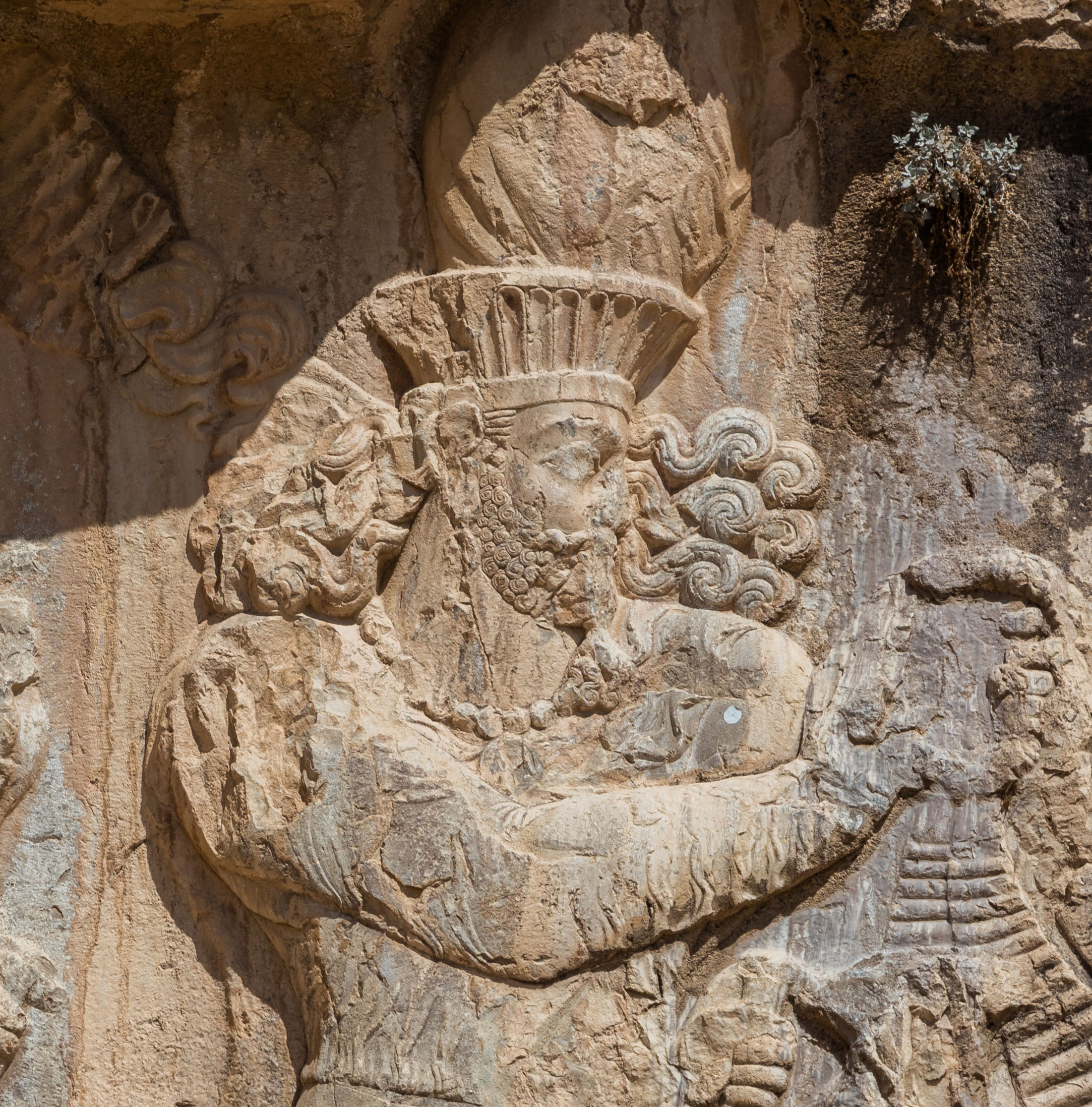 Relief of the Sasanian king (shah) Narseh in Naqsh-e Rustam.